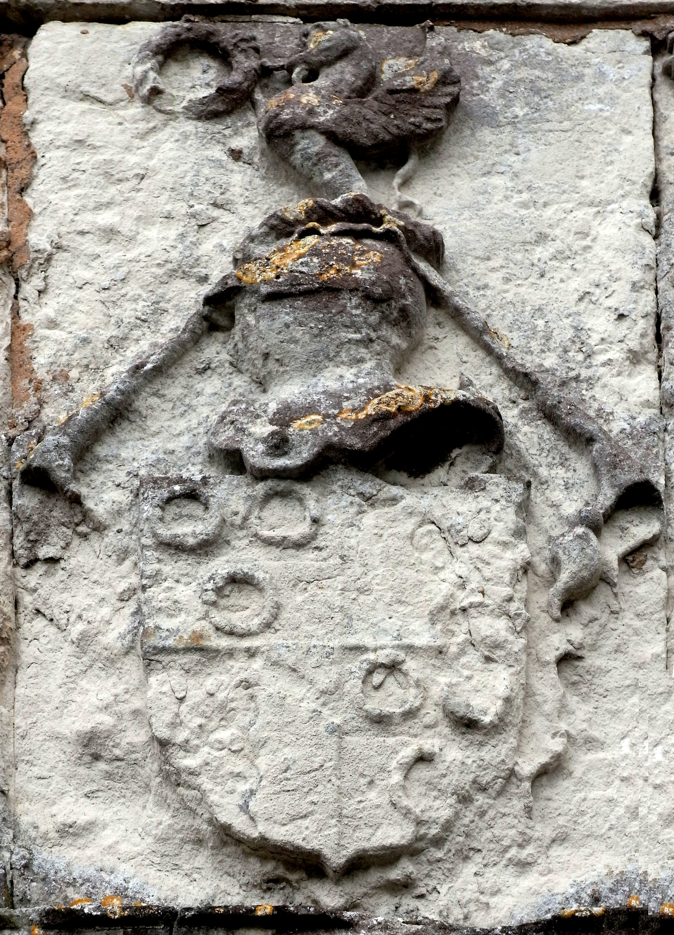 Arms of the Duke family in stone relief on the porch of the Priory church of St michael, Otterton, Devon. The arms of Duke (Per fesse argent and azure, three chaplets counterchanged) occupy the 1st & 4th quarters, but the arms in the 2nd & 3rd quarters are now worn away by age. They were said to be the arms of the Poer family of Powershayes, the heiress of whom, Cecily Poer, daughter and heiress of Roger Poer, an early member of the Duke family had married. (Harrison, E.M., A History of the Church at Otterton, 1983, pp.5 & 15 (Church booklet